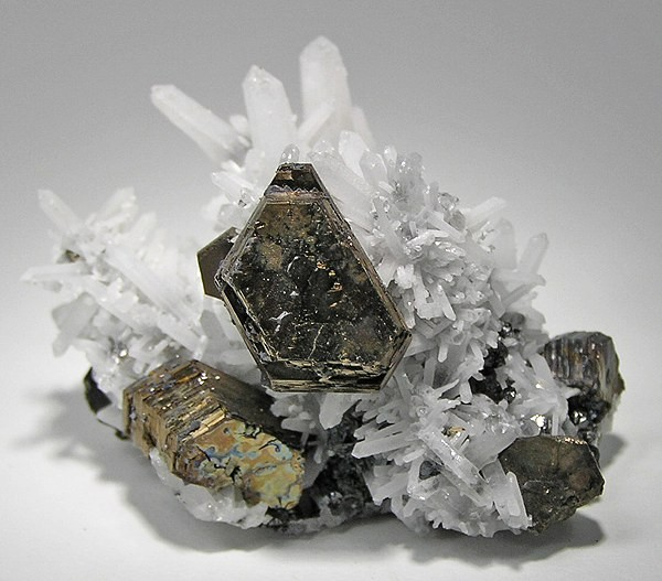 Pyrrhotite, Sphalerite, Quartz Locality: Nikolaevskiy Mine, Dal'negorsk (Dalnegorsk; Tetyukhe; Tjetjuche; Tetjuche), Primorskiy Kray, Far-Eastern Region, Russia (Locality at ) Size: 5.3 x 4.1 x 3.8 cm. Sharp, brassy crystals of pyrrhotite are perched beautifully on clustered bursts of milky quartz crystals. You can also see some crystals of sphalerite down amongst the quartzes.